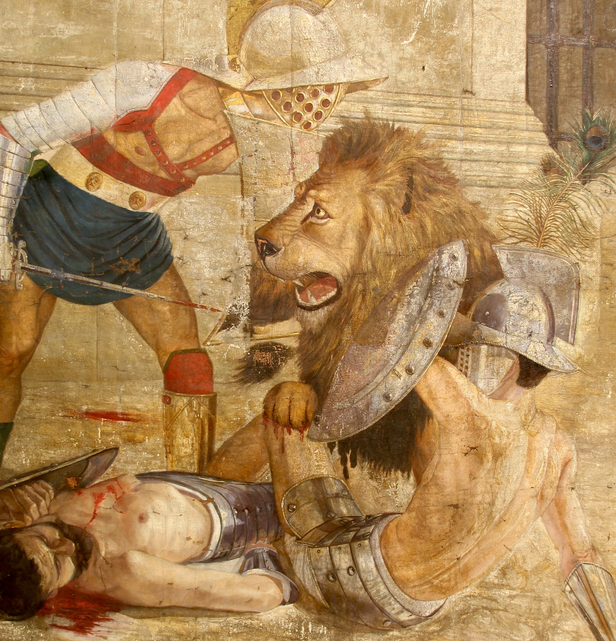 A Murmillo Gladiator Fights a Barbary Lion in the colosseum in Rome during a condemnation of beasts.